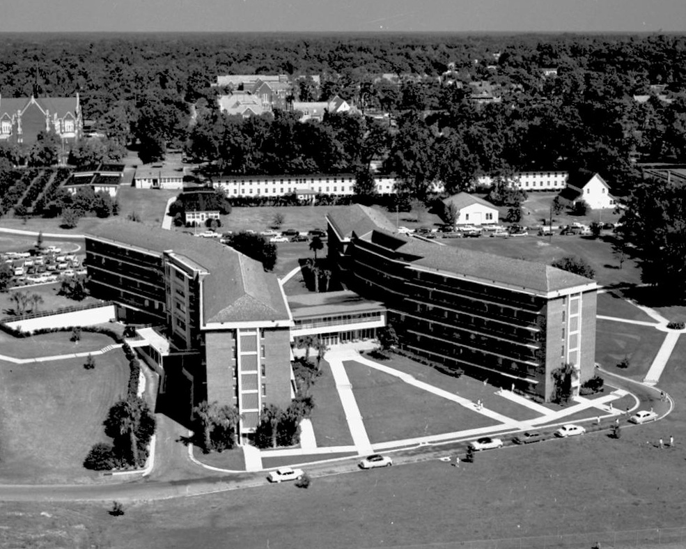 A cropped picture of the Broward Hall